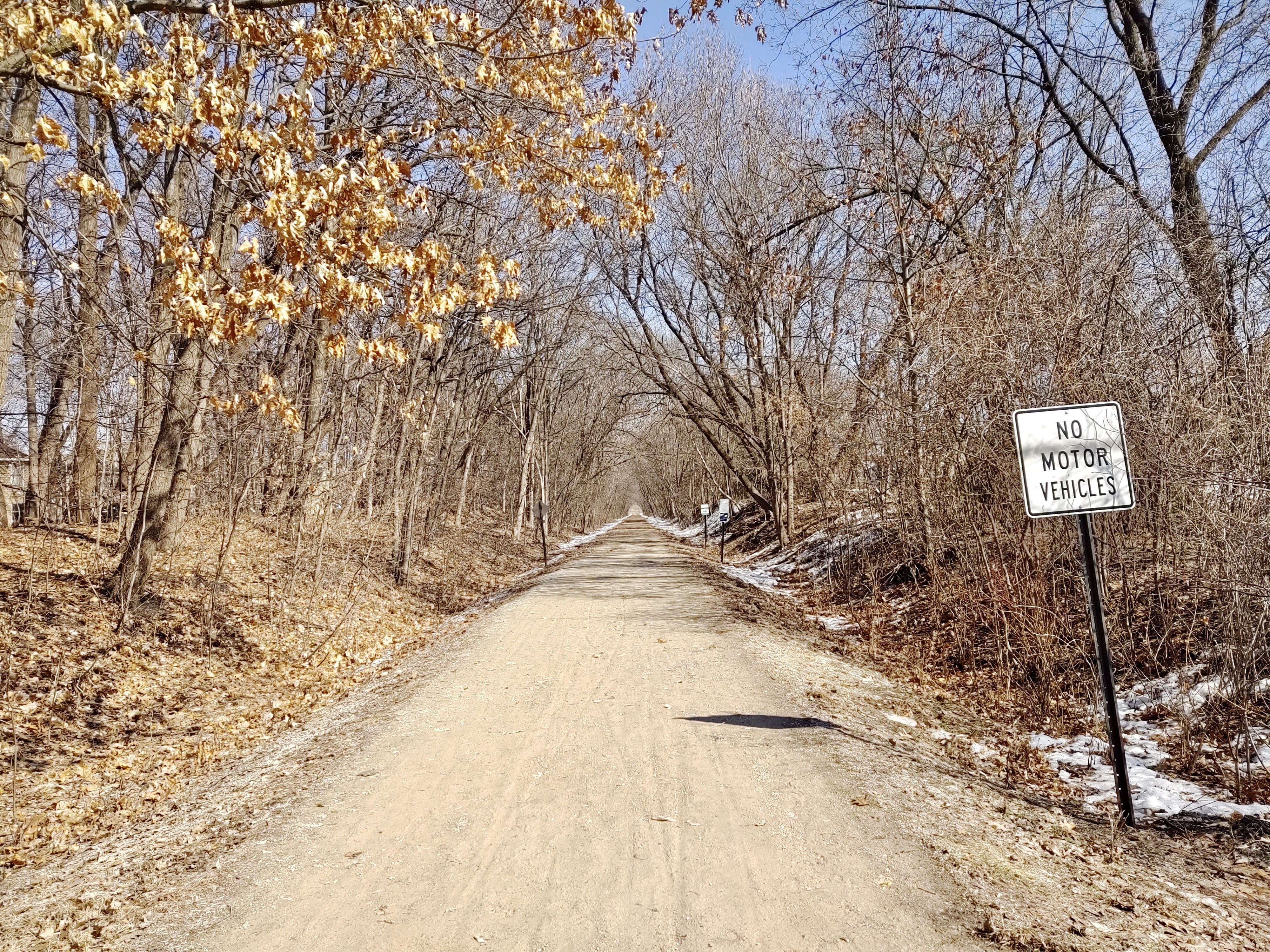 Looking NE